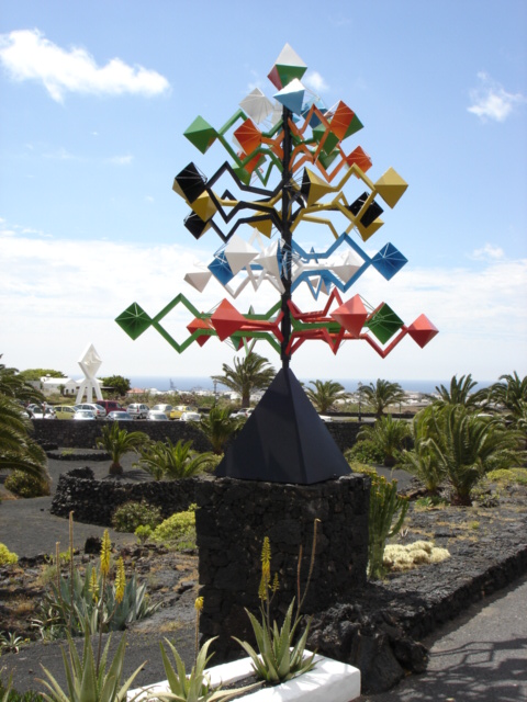 César Manrique, wind sculpture, Island Lanzarote, (Canary Islands, Spain)